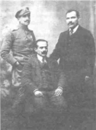 IMARO revolutionary/ies